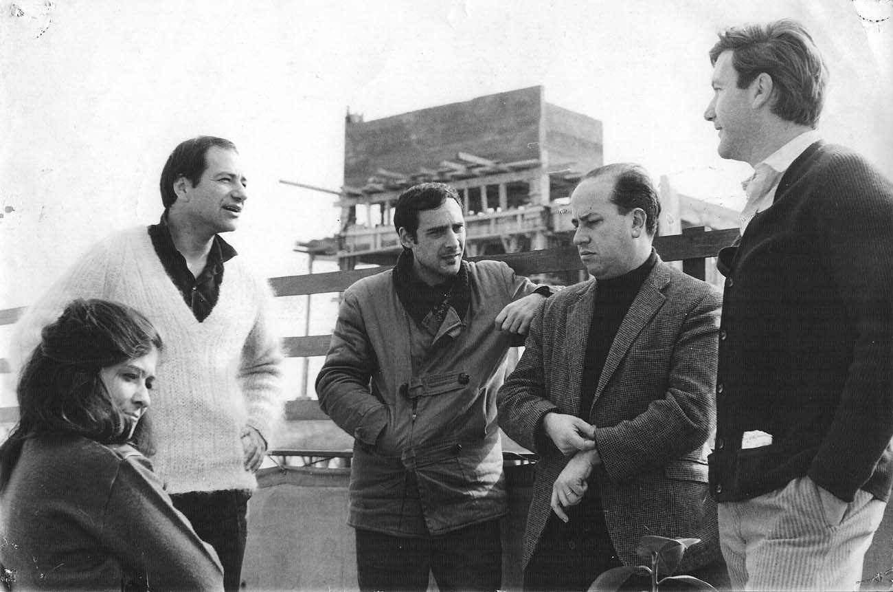 ESPARTACUS GRUP